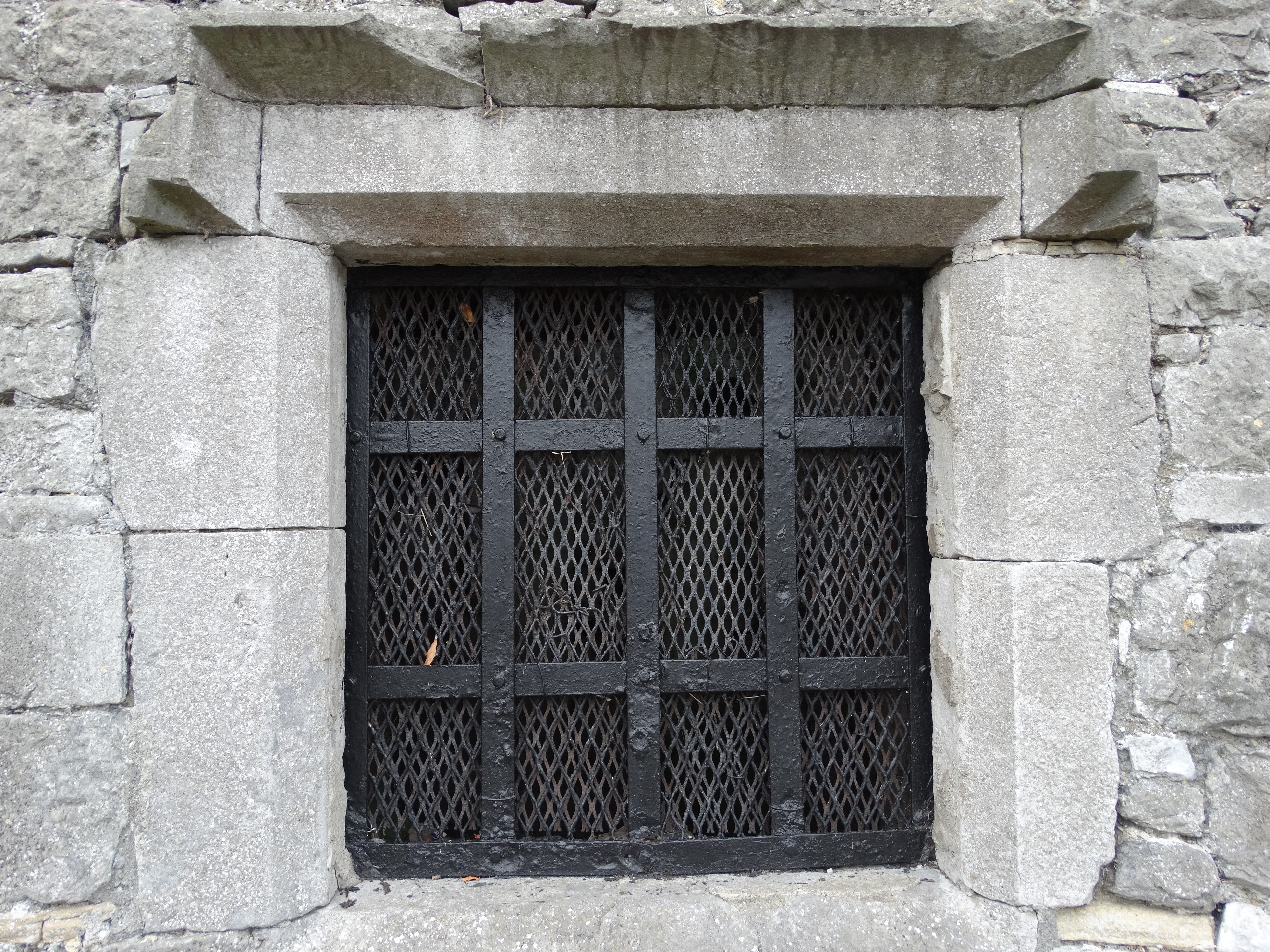 King Johns Castle Kilmallock